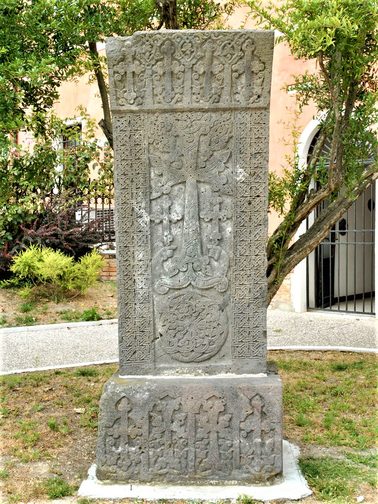 Khatchkar (14th c.), San Lazzaro degli Armeni, Venice, Italy.